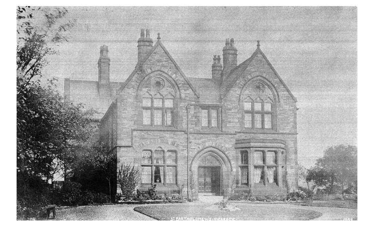 Front elevation and garden of vicarage of St Bartholomew's completed 1875 by T.H and F. Healy. The picture dates from that time.